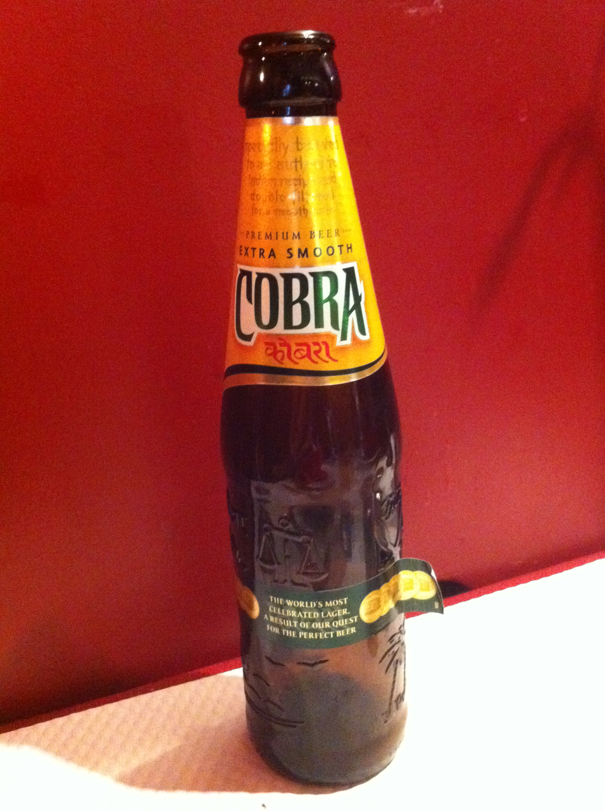 Cobra, beer bottle